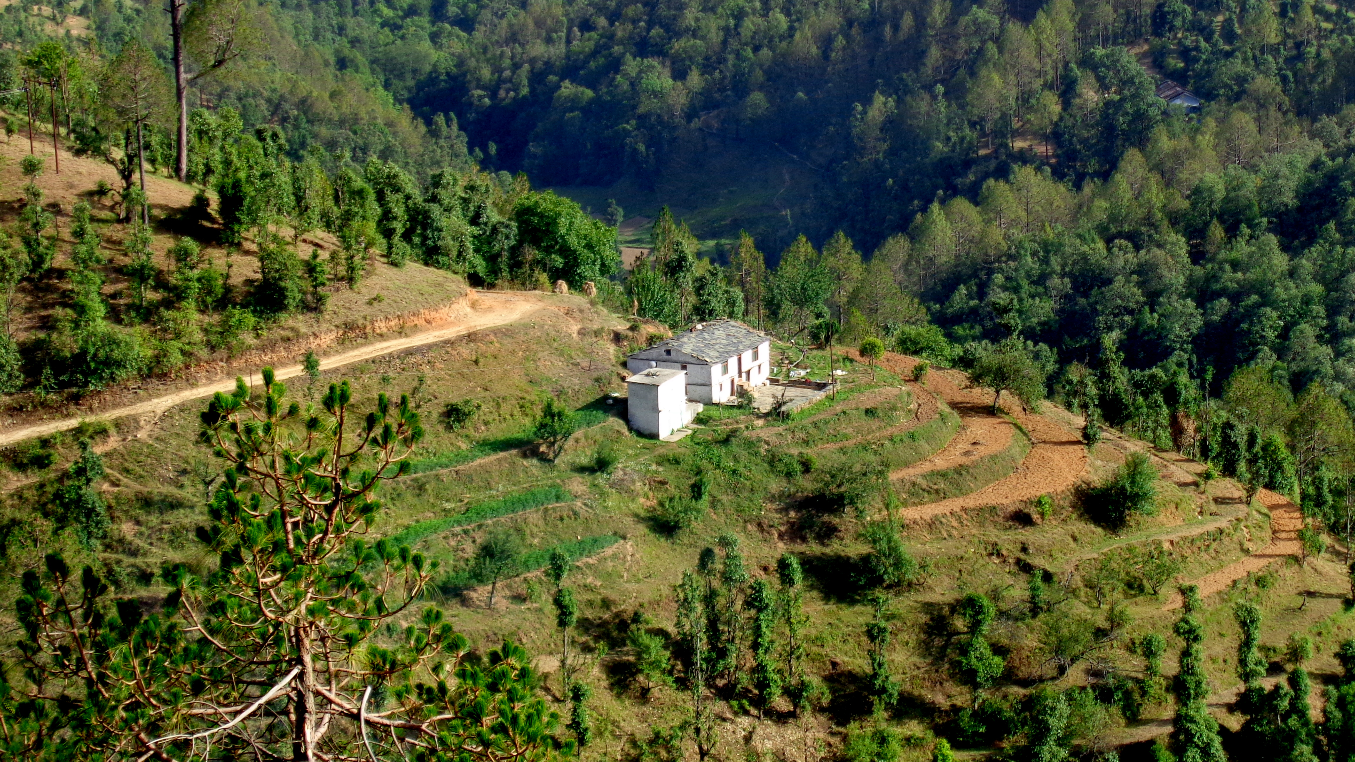 I wish people cared as much about the earth as they did about who they think created it.